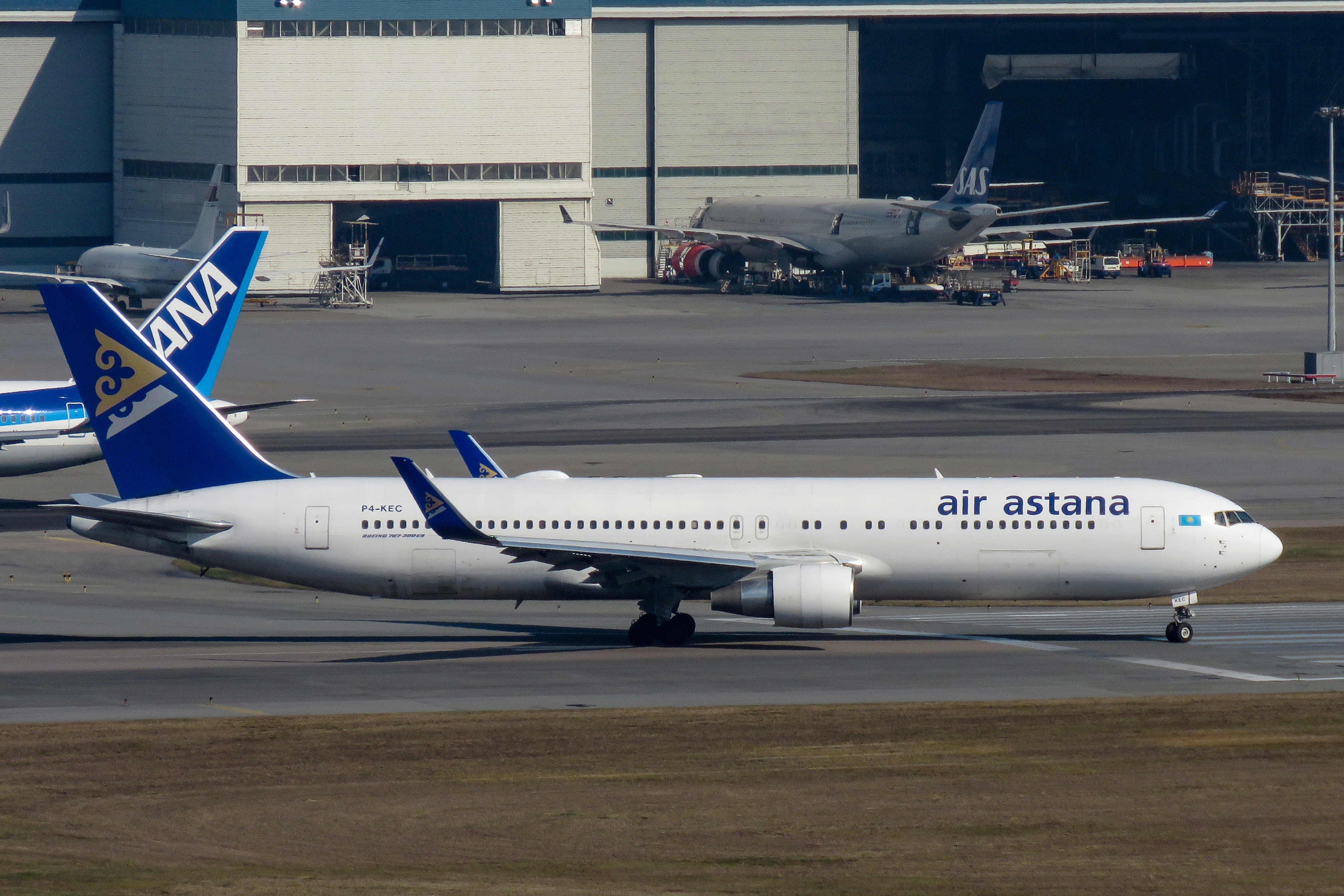 Astanaline 930 to Almaty.